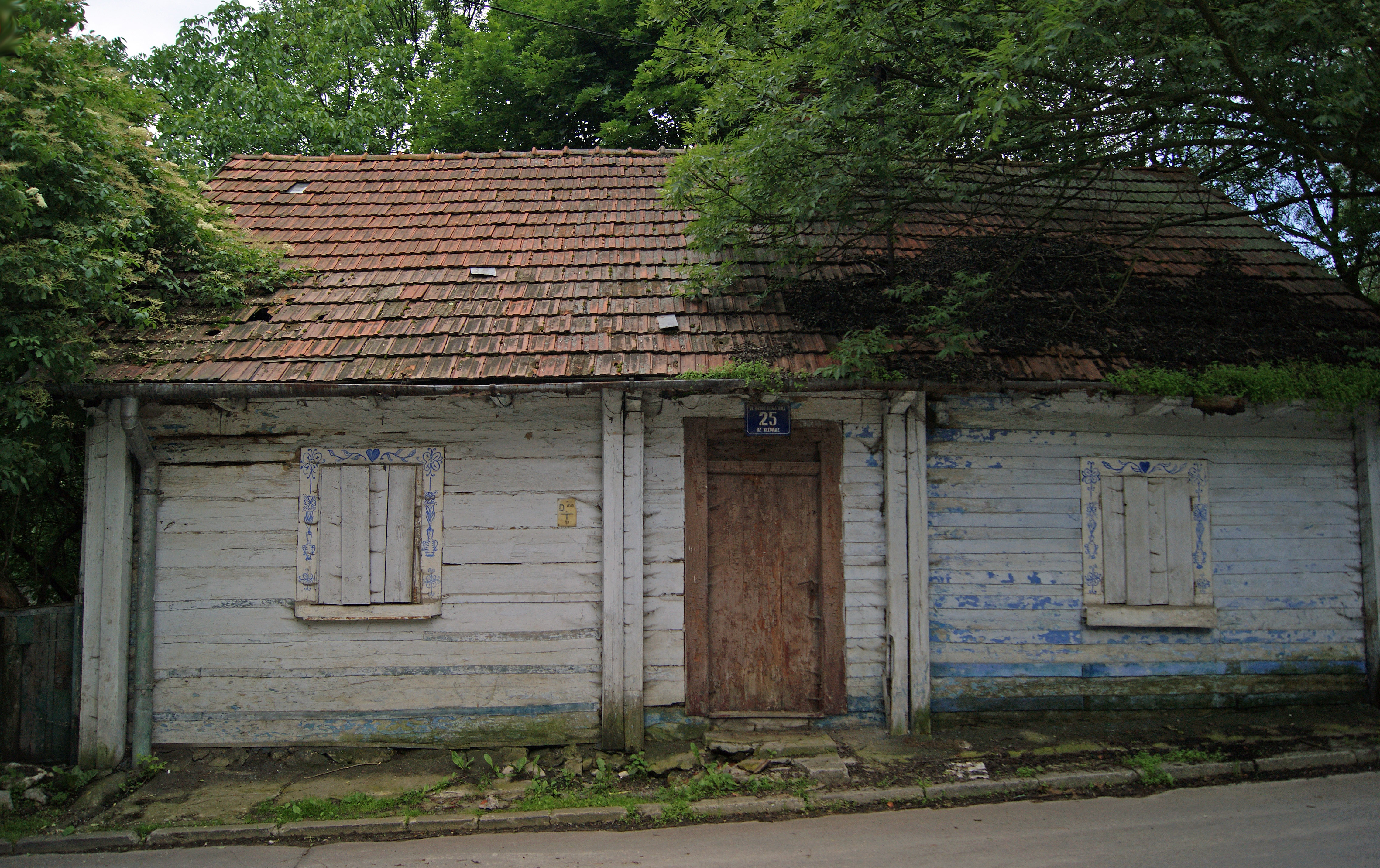 Old cottage, 25 Tetmajera street, Bronowice Małe, Krakow, Poland